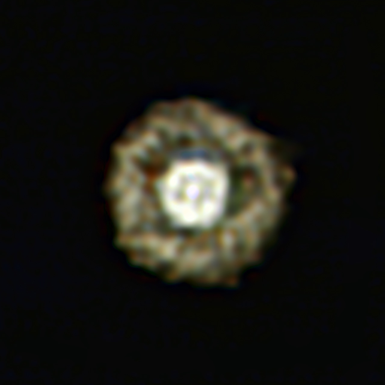 This picture of the nebula around a rare yellow hypergiant star called IRAS 17163-3907 is the best ever taken of a star in this class and shows for the first time a huge dusty double shell surrounding the central hypergiant. The star and its shells resemble an egg white around a yolky centre, leading astronomers to nickname the object the Fried Egg Nebula.